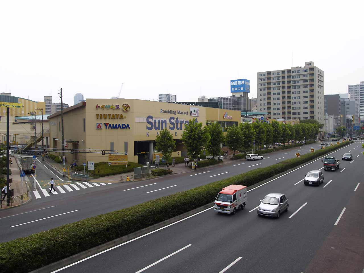 View of Sun Street Kameido from footbridge over the National Route 14